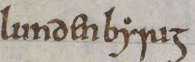 Lundenbyrig (London); from the Anglo-Saxon Chronicle.